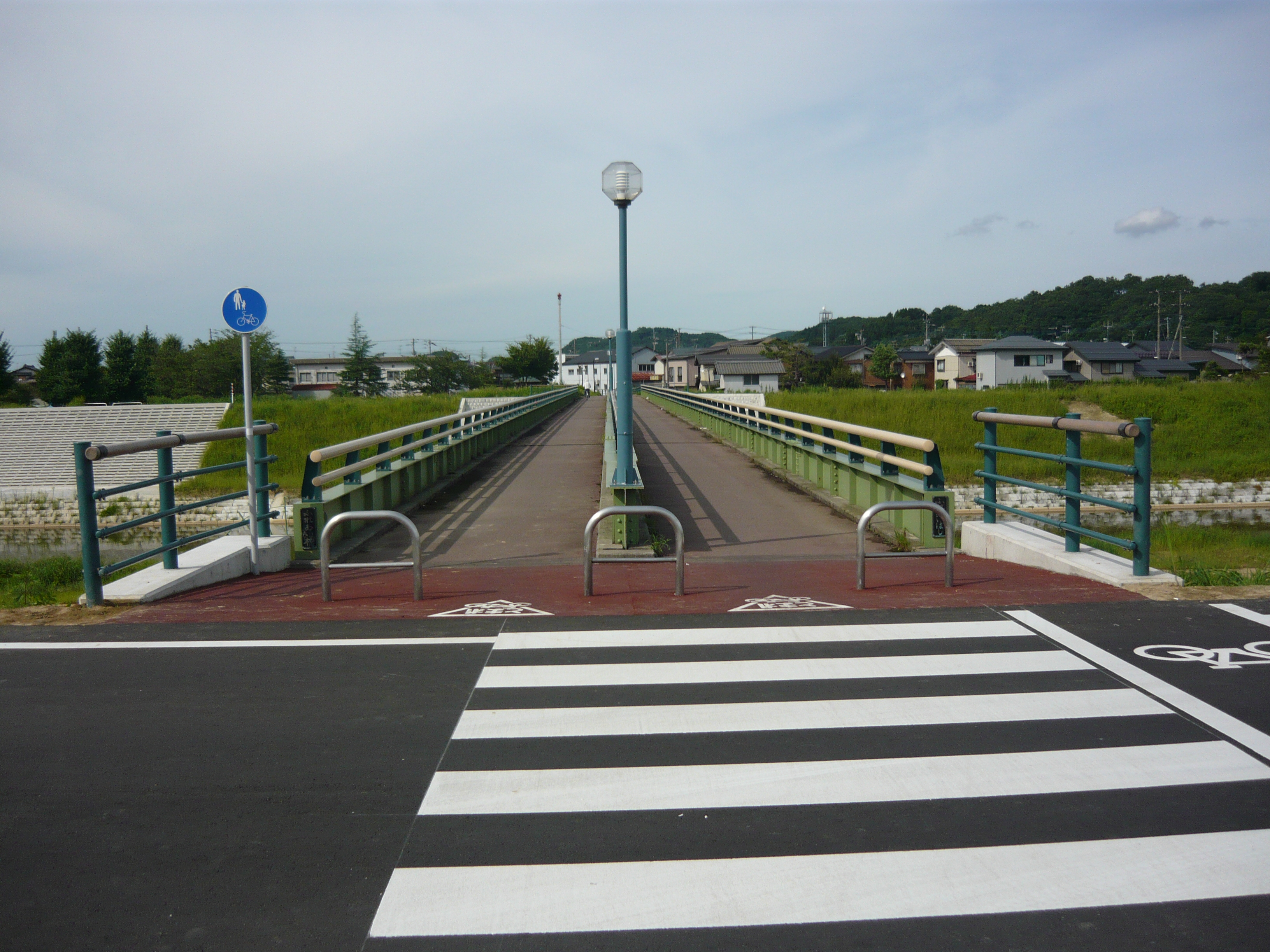 Fureaibashi, a bridge only for walker on Kariyata-river in Mitsuke Niigata.